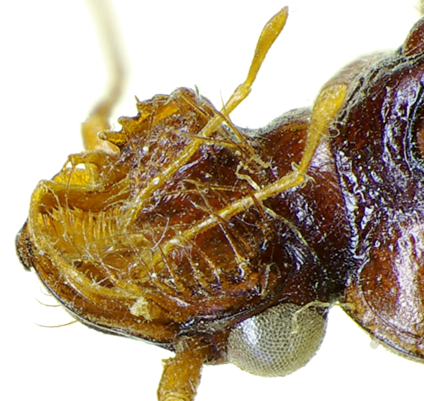 Leistus ferrugineus head from underside